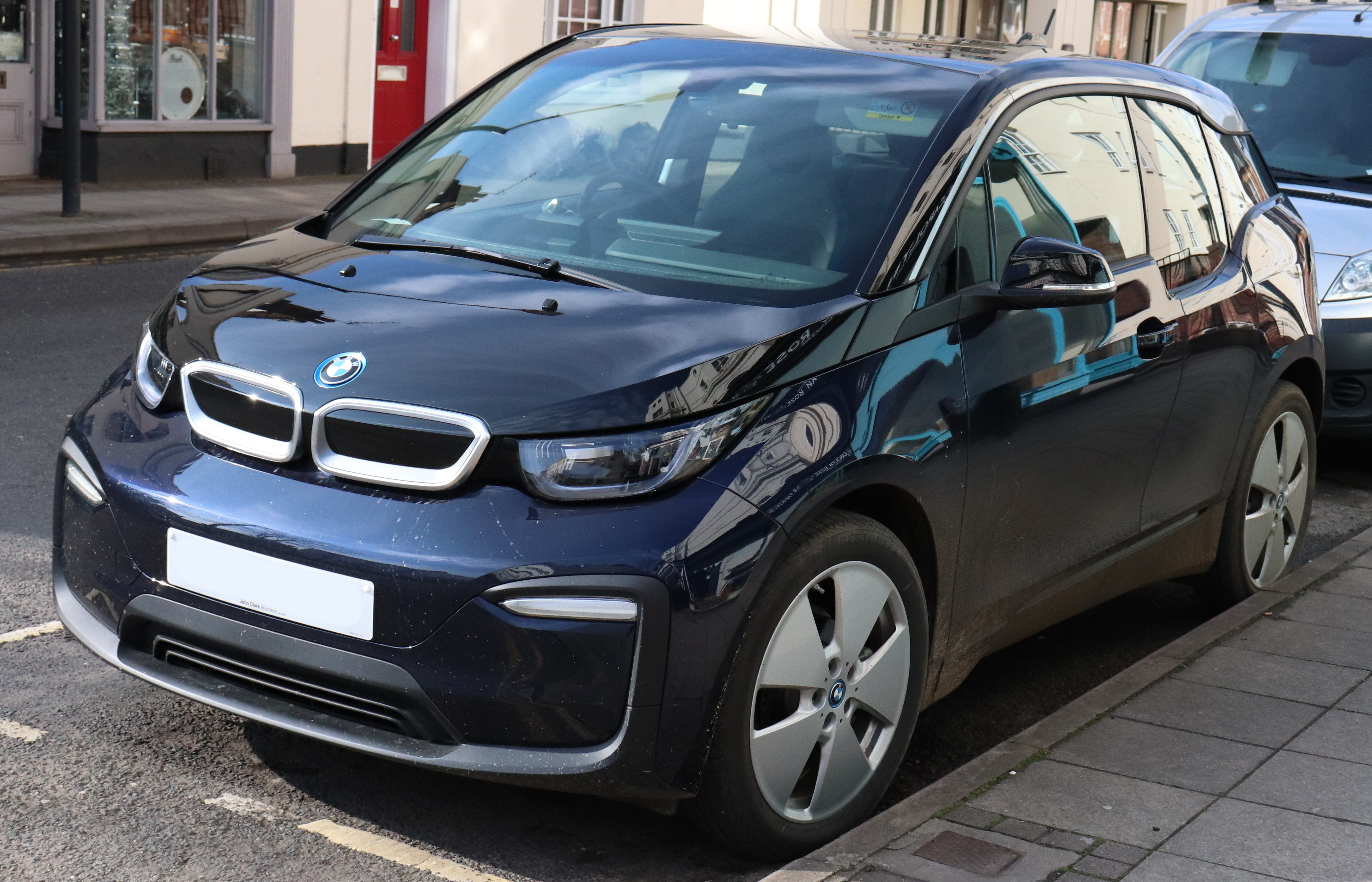 2018 BMW i3 facelift Taken in Leamington Spa